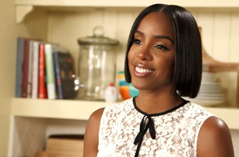 Kelly Rowland Encourages Fam Cooking